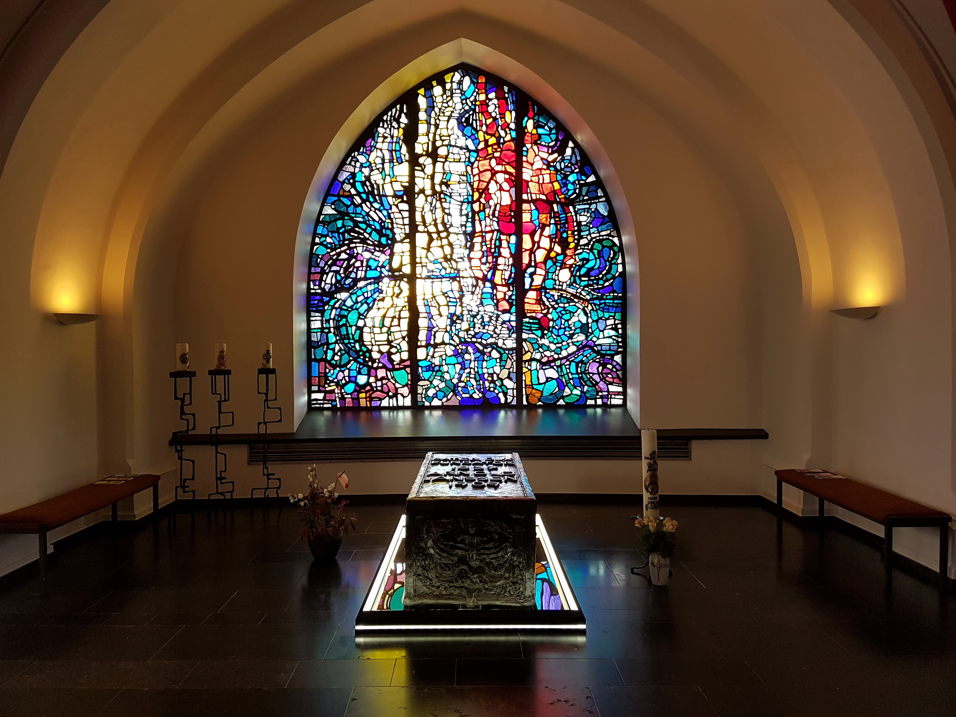 View of the tomb of Saint Arnold Janssen in the Lower chapel of St. Michael's Monastery in Steyl, Limburg, the Netherlands. Only the lower chapel is open to the public; the upper chapel is reserved for members of the congregation. The monastery is the so-called motherhouse of the Society of the Divine Word (Latin: Societas Verbi Divini, abbreviated SVD), of which Arnold Janssen is the founder.